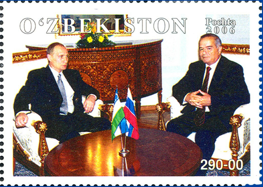 Stamps of Uzbekistan, 2006